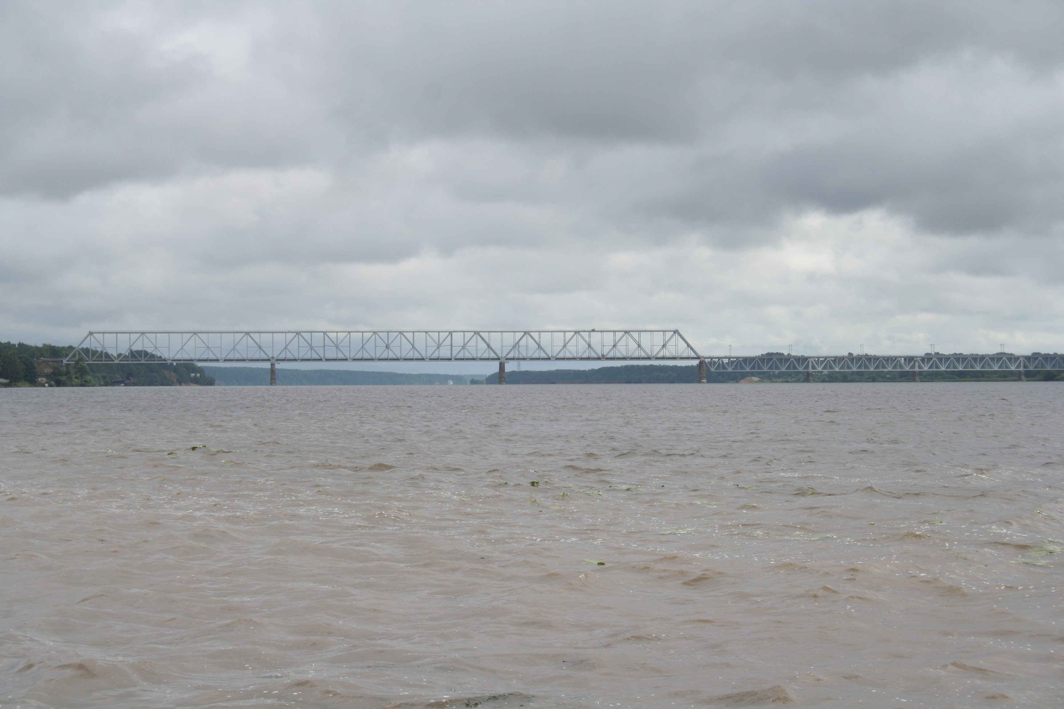 Railway bridge over the Volga in Kostroma, Russia.